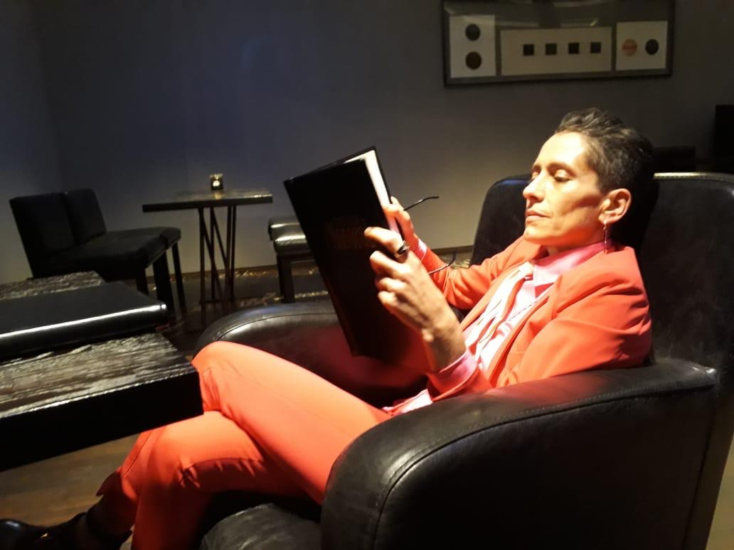 Filmmaker Albertina Carri